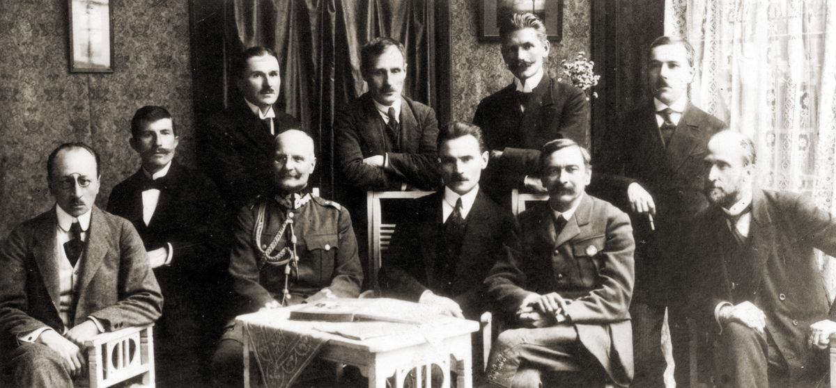 Delegation of Polish Government and Parliament (Sejm) for negotiations with Soviet Russia on conditions of armistice and Peace Treaty ending Polish Soviet War